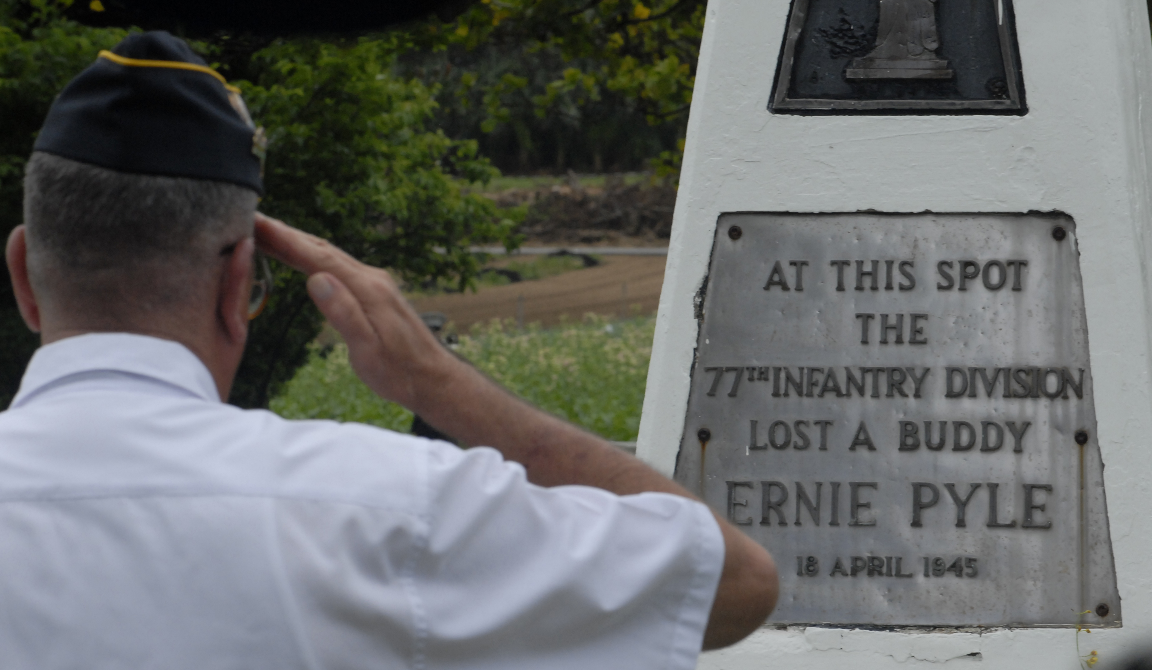 Retired Sgt. Maj. L.A. Henry salutes the Ernie Pyle Memorial on Ie Shima, April 15, during a commemoration ceremony for the 62nd anniversary of the Pulitzer Prize-winning war correspondent’s passing. More than 50 veterans, service members, public officials and civilians gathered at the site, which stands near where Pyle was killed by enemy gunfire during the Battle of Okinawa.